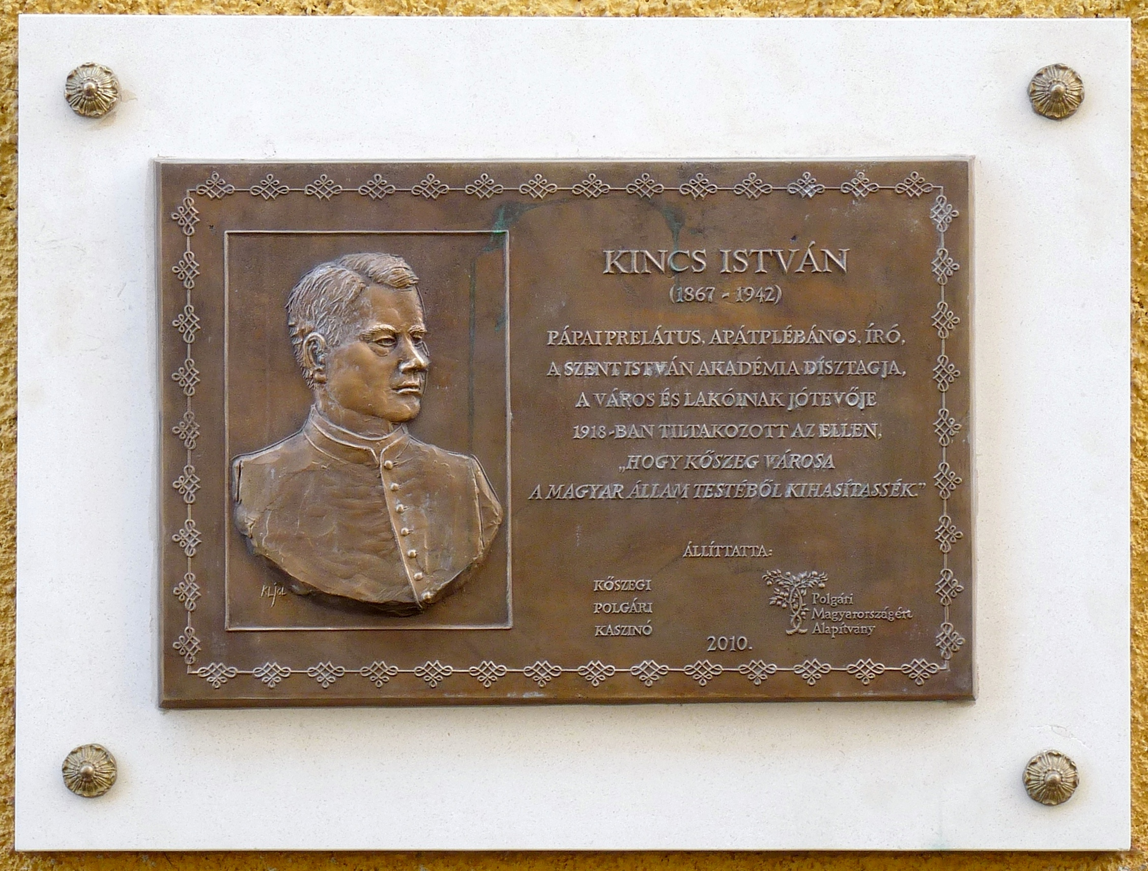 Commemorative plaque to Mr. István Kincs (1867-1942) Hungarian journalist, writer and Catholic priest. It has been placed and unveiled June 4, 2010, in the alley that bears his name. The author of the bronze relief is Sándor Kligl. (Kőszeg, Kincs István Lane)